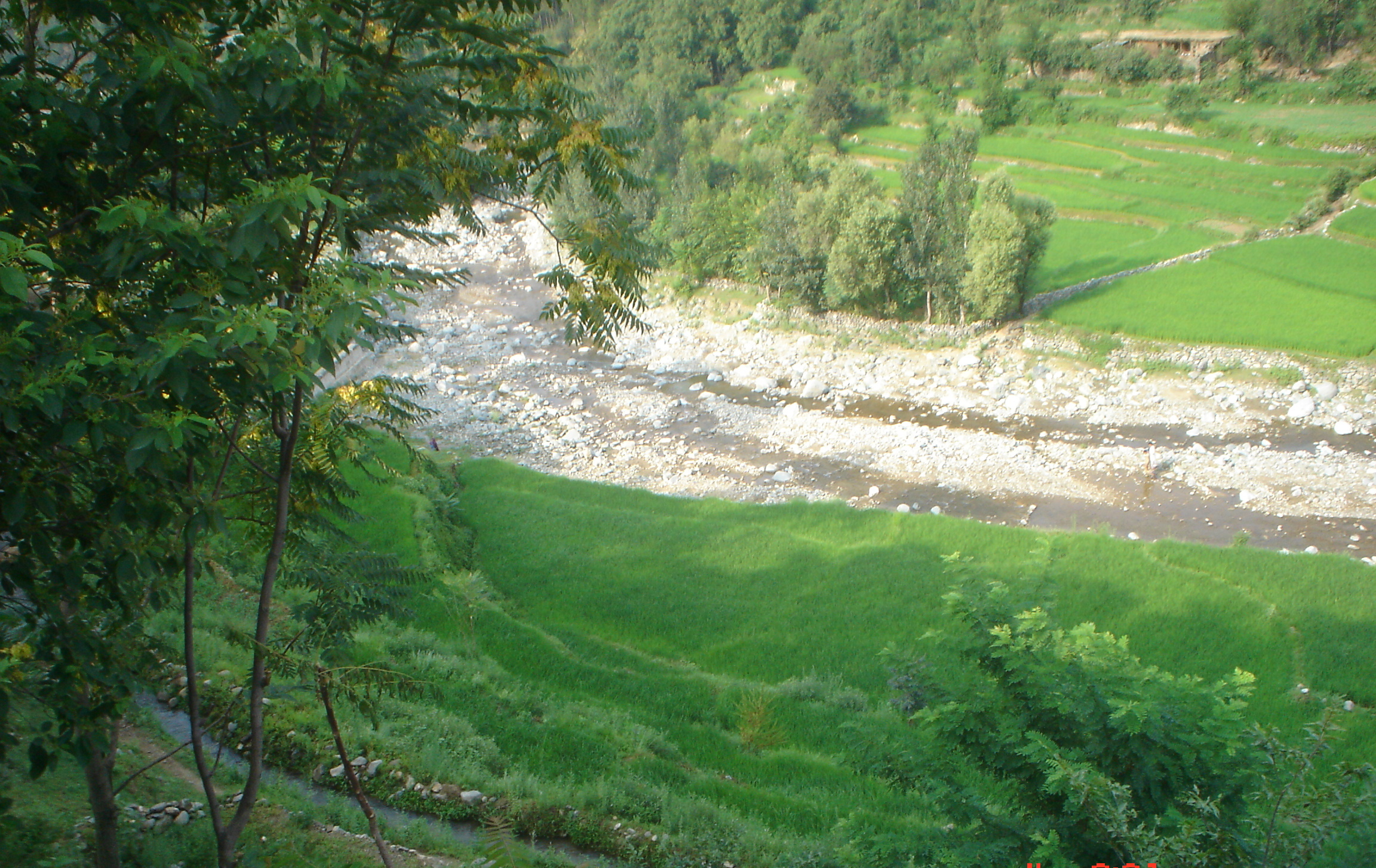 A beautiful view from Akber Zaib Khan house in Goar. One of the beautiful sites of Goar, Zaimdara UC, in Maidan Valley area of Lower Dir District, KPK, Pakistan.